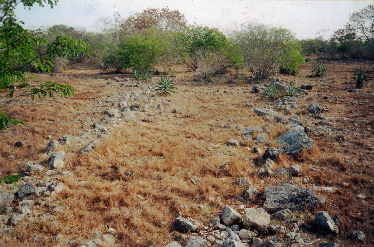 View of a "callejuela" from the ancient Maya site of Chunchucmil, Yucatan, Mexico.